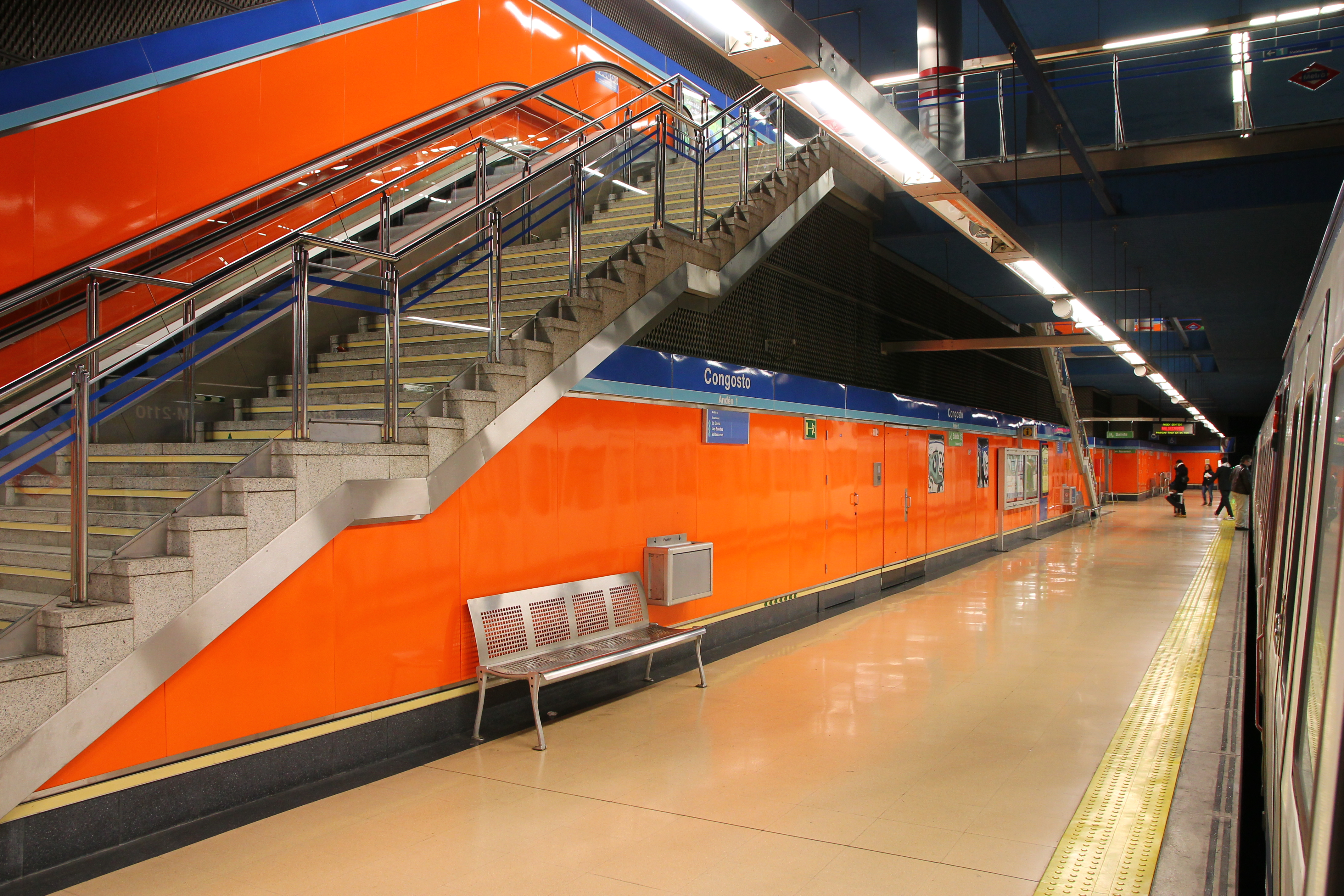 Congosto station. Madrid Metro.